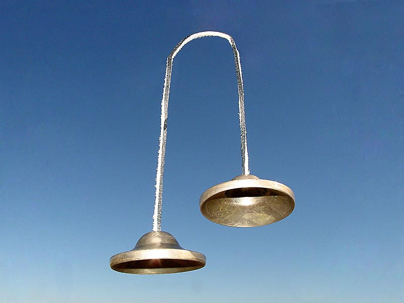 Karatalas under Minnesota Sun